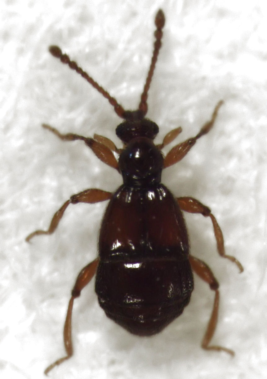 Pselaphophus atriventris (adult)